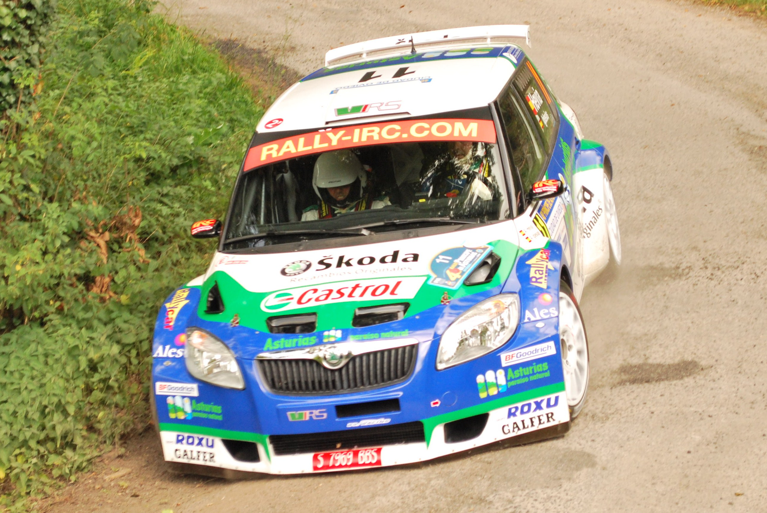 Alberto Hevia (Skoda Fabia S2000) in the Rally Principe 2009, International Rally Challenge and Spanish Rally Championship.